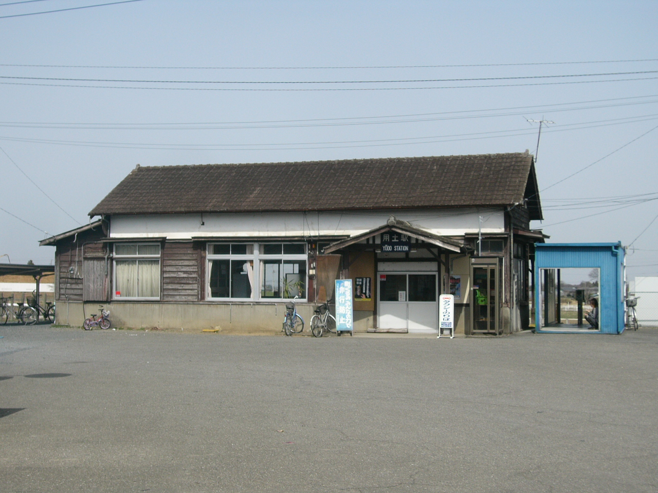 Yodo Station on the Hachiko Line, in Yorii, Saitama prefecture